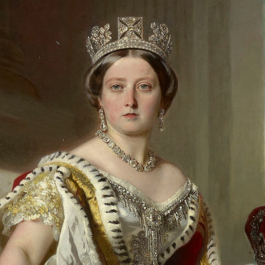 Cropped portrait of Queen Victoria.